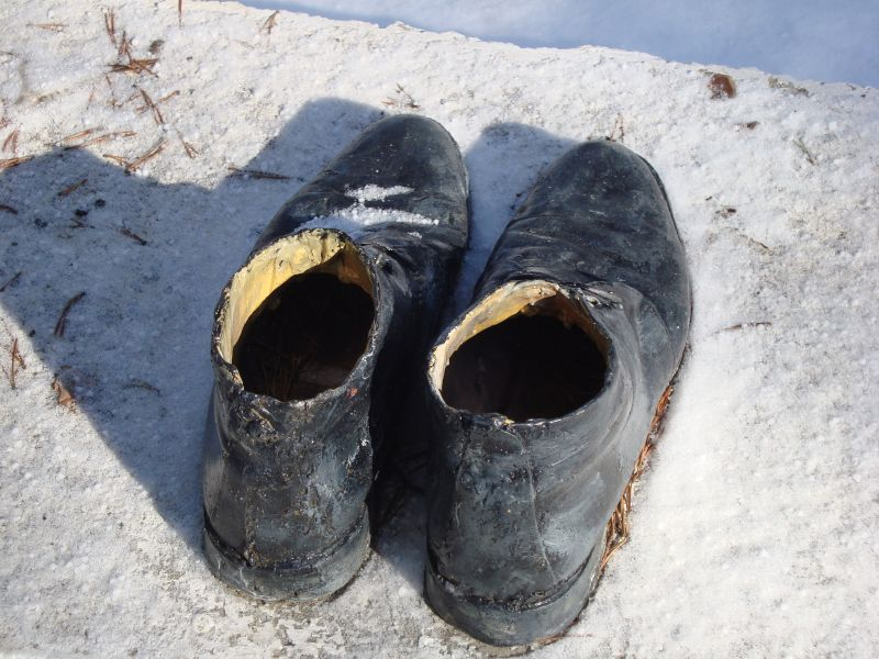 Umeå sculpture park/Sweden with Untitled by Roland Persson.